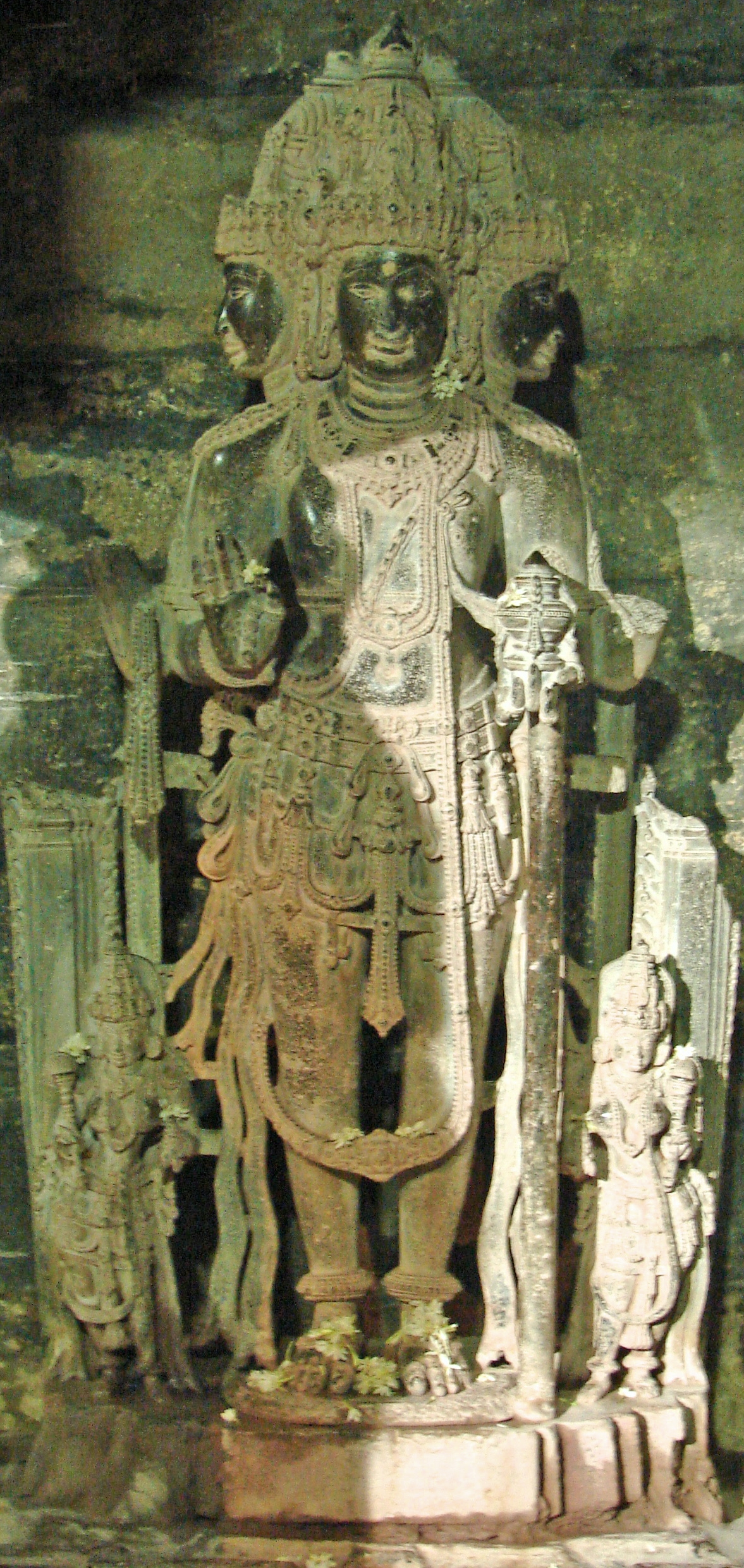 Jain Temple in Lakkundi, Gadag district, Karnataka state, India. The image represents a Chaturmukha or four faced image of Hindu god Brahma (the fourth face is hidden from view)